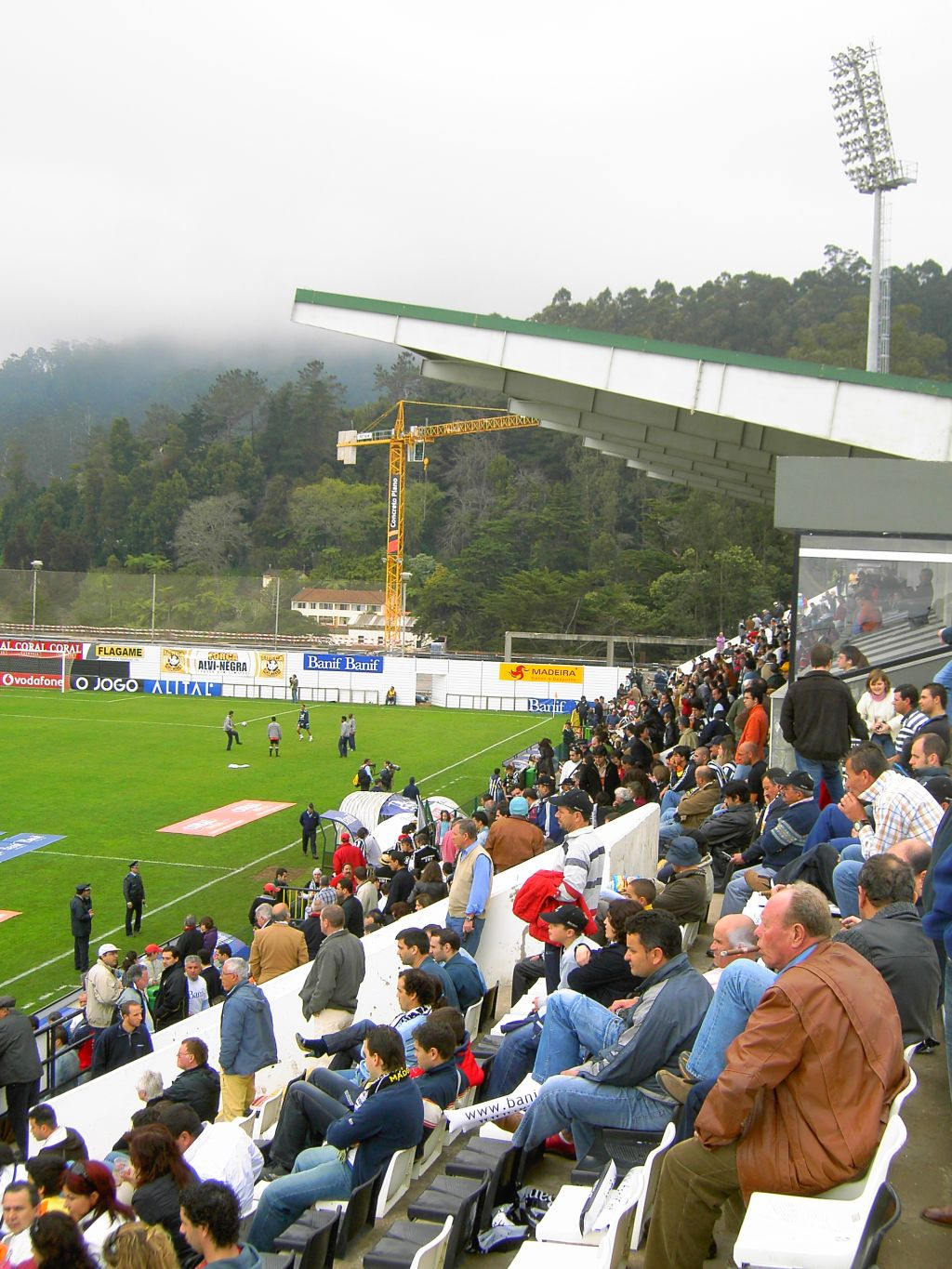 Image of Estádio Eng. Rui Alves (Funchal, Portugal). Main bridge of the stadium during the Portuguese Liga match C.D. Nacional versus Associação Académica de Coimbra - O.A.F.